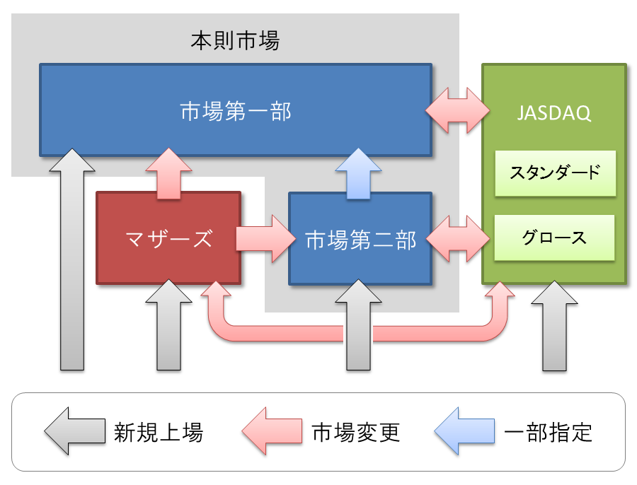 Markets of Tokyo Stock Exchange